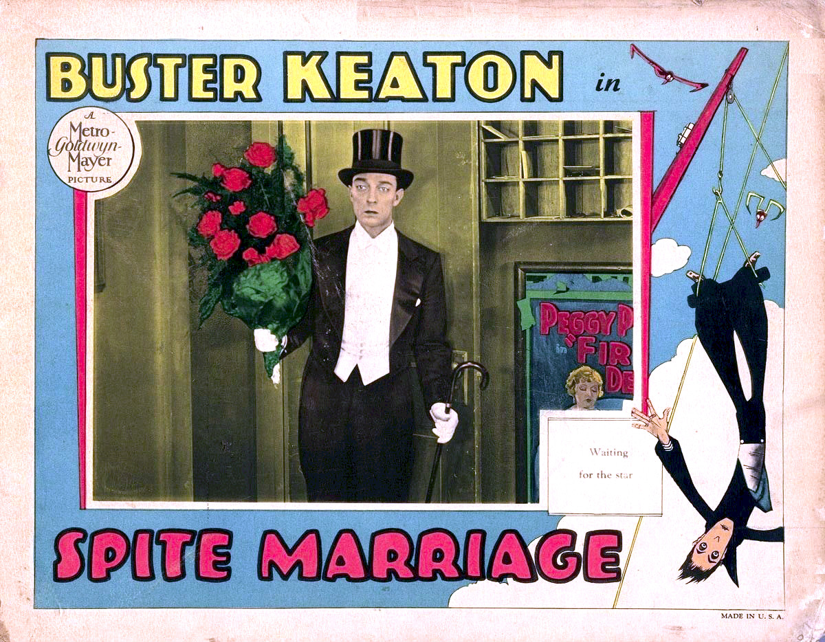 Lobby card for the American comedy film Spite Marriage (1929). The item has no copyright markings on it as can be seen in the links above. at bottom right is Made in USA.